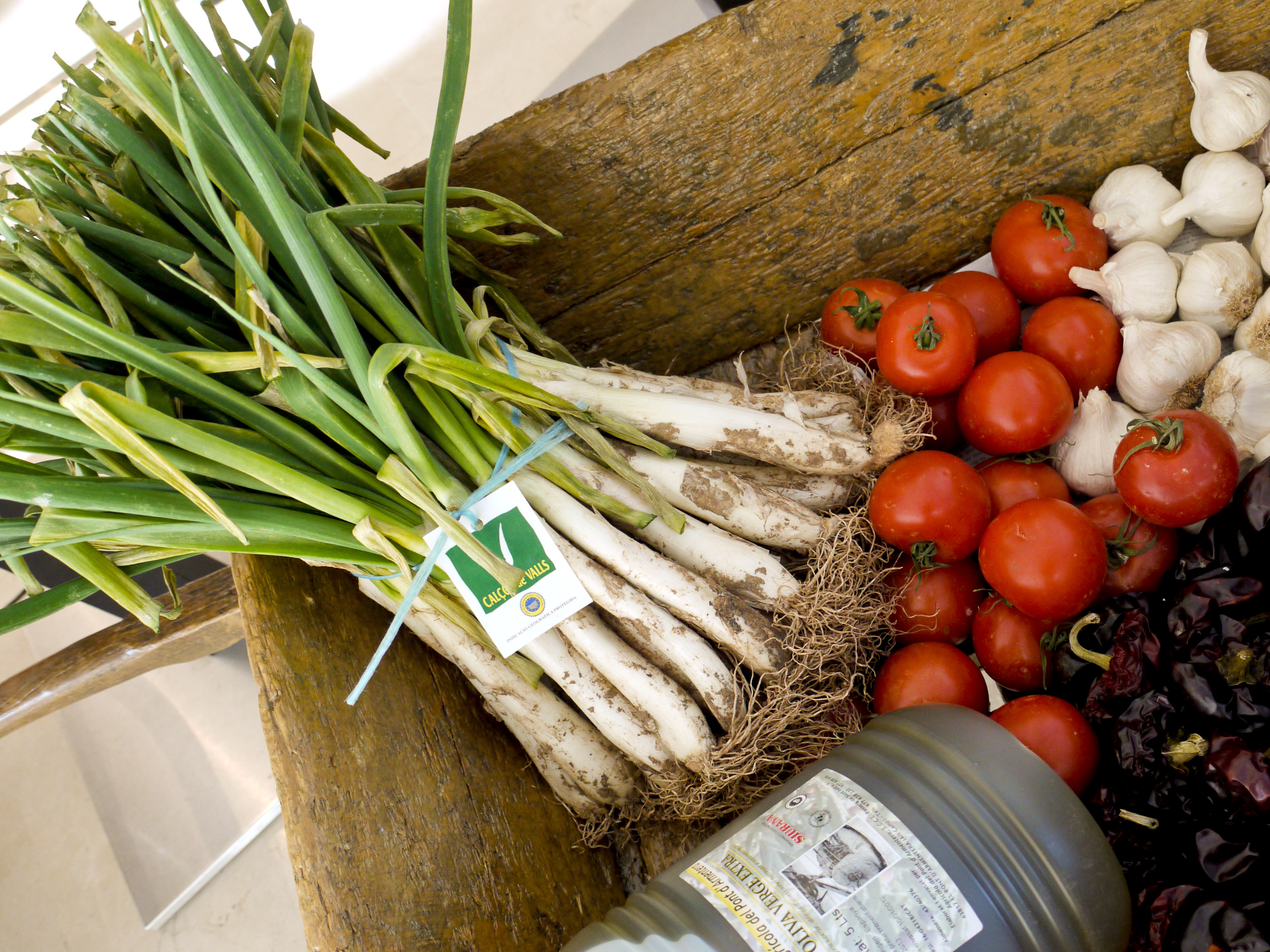 Calçots (Calcotadas) from Valls, Tarragona, Spain.